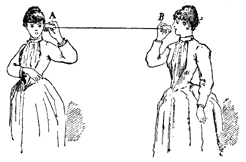 Source details: This etching first appeared in 1889 in Henri de Parville's French translation/update of François-Napoléon-Marie Moigno's update of Ebenezer Cobham Brewer's book originally titled, A guide to the scientific knowledge of things familiar. The French 1889 edition is titled, La clef de la science, explication des phénomènes de tous les jours par Brewer et Moigno. This Wikimedia Commons image is a scan from the 1890 Swedish translation by Thore Kahlmeter, Hvarför? och Huru? Nyckel till naturvetenskaperna and is taken from Project Runeberg here. The original etching in the French edition can be seen on Google Books here. Emtilt (talk) 06:00, 20 September 2014 (UTC)